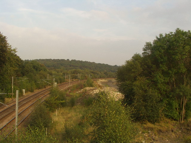 Former Newlay Station, Newlay, Leeds. Another view of the former station, looking east from Pollard Lane bridge.